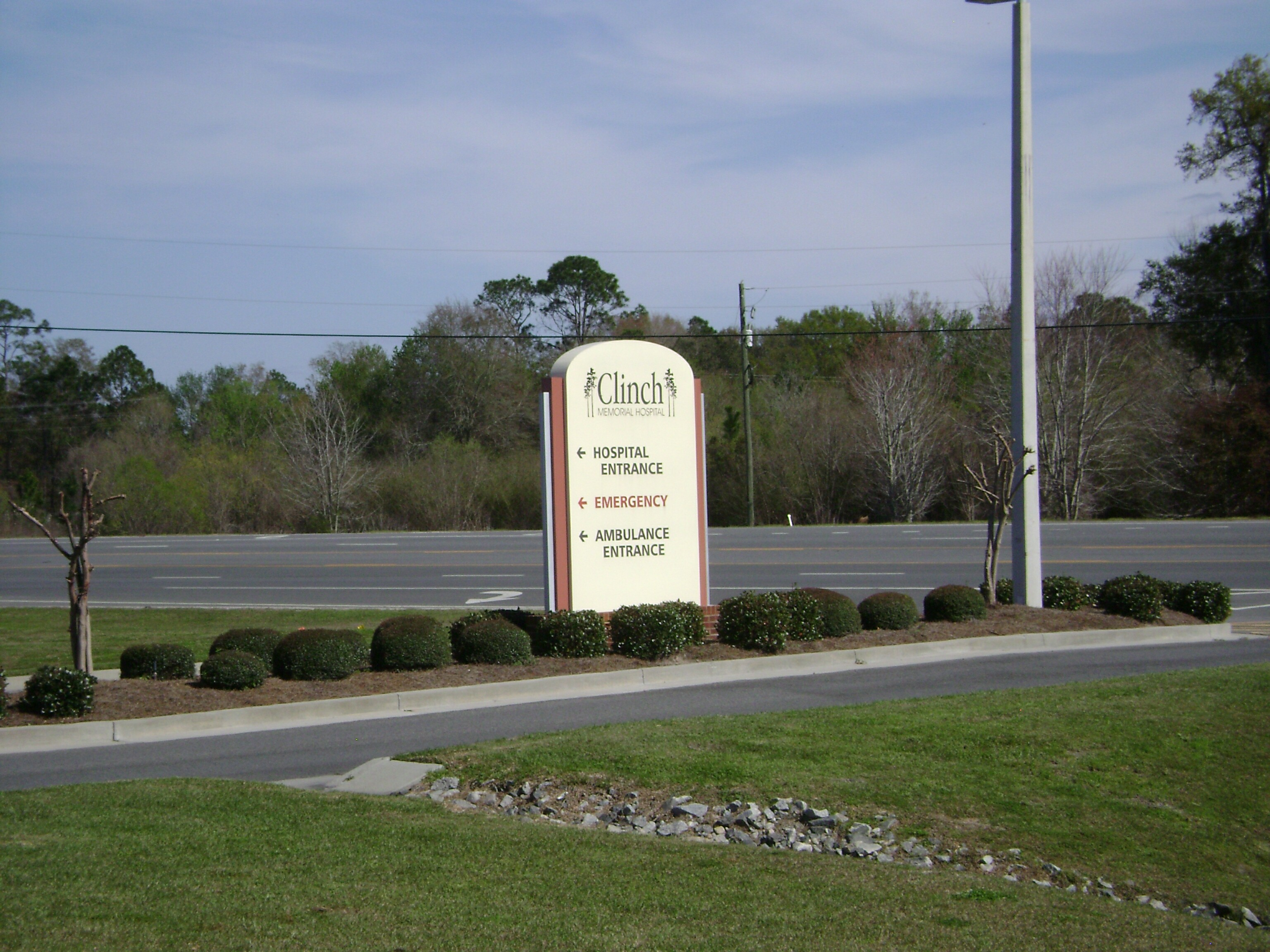 Clinch County Hospital Sign in Clinch County, Georgia